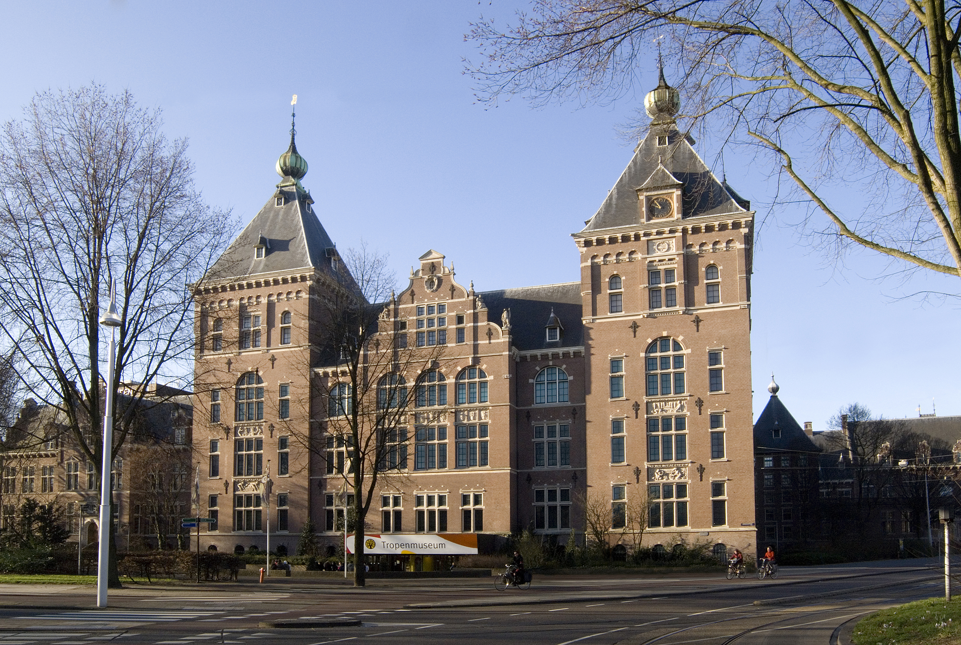 Entrance of the Tropenmuseum in Amsterdam. It replaces the picture of the entrance of the "Koninklijk Instituut voor de Tropen".